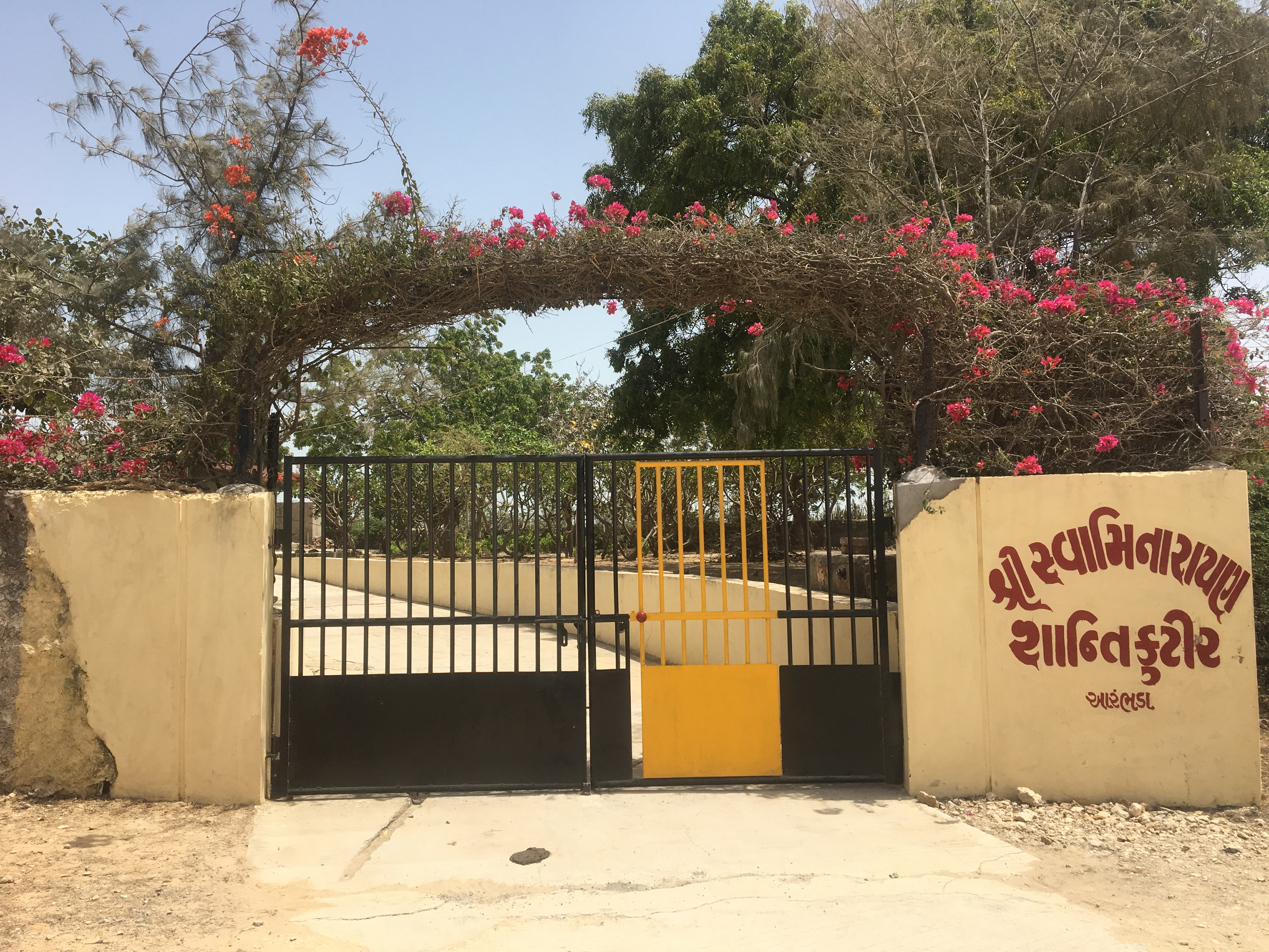 This is the resident of Swami Narayanprasaddasji located at Arambhada village of Dwarka in Gujarat, India